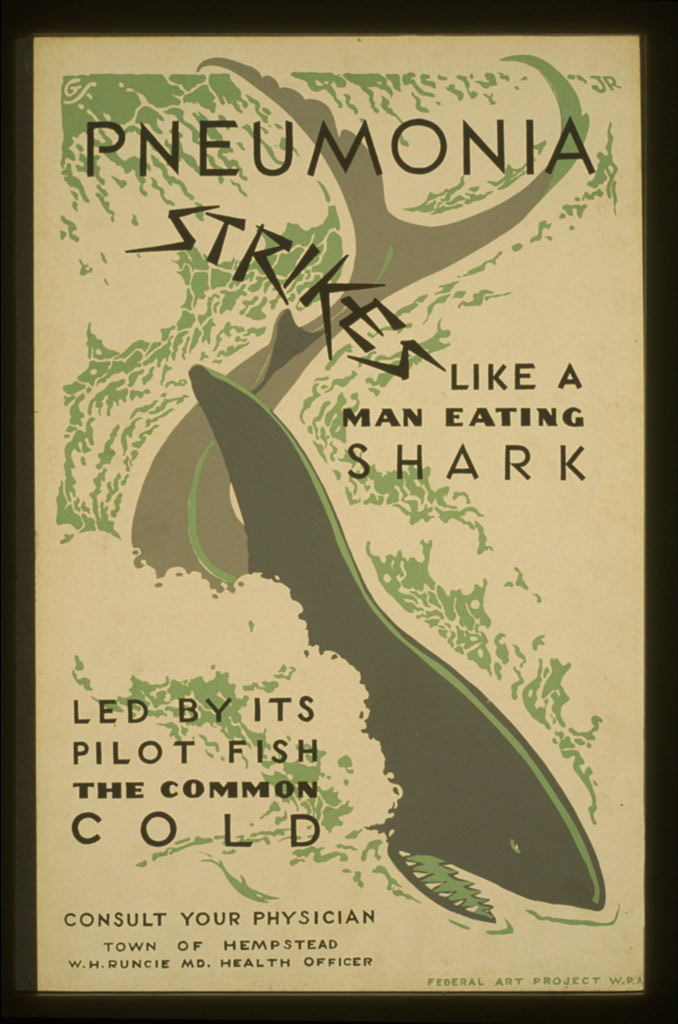 URL: TITLE: Pneumonia strikes like a man eating shark led by its pilot fish the common cold Consult your physician / G.S., Jr. CALL NUMBER: POS - WPA - NY .S076, no. 1 (B size) [P&P] REPRODUCTION NUMBER: LC-USZC2-5391 (color film copy slide) RIGHTS INFORMATION: No known restrictions on publication. SUMMARY: Poster encouraging citizens to "consult your physician" for treatment of the common cold, showing a shark. MEDIUM: 1 print on board (poster) : silkscreen, color. CREATED/PUBLISHED: [New York] : Federal Art Project, W.P.A., [1936 or 1937] NOTES: Date stamped on verso: Dec 1 1937. Work Projects Administration Poster Collection (Library of Congress).